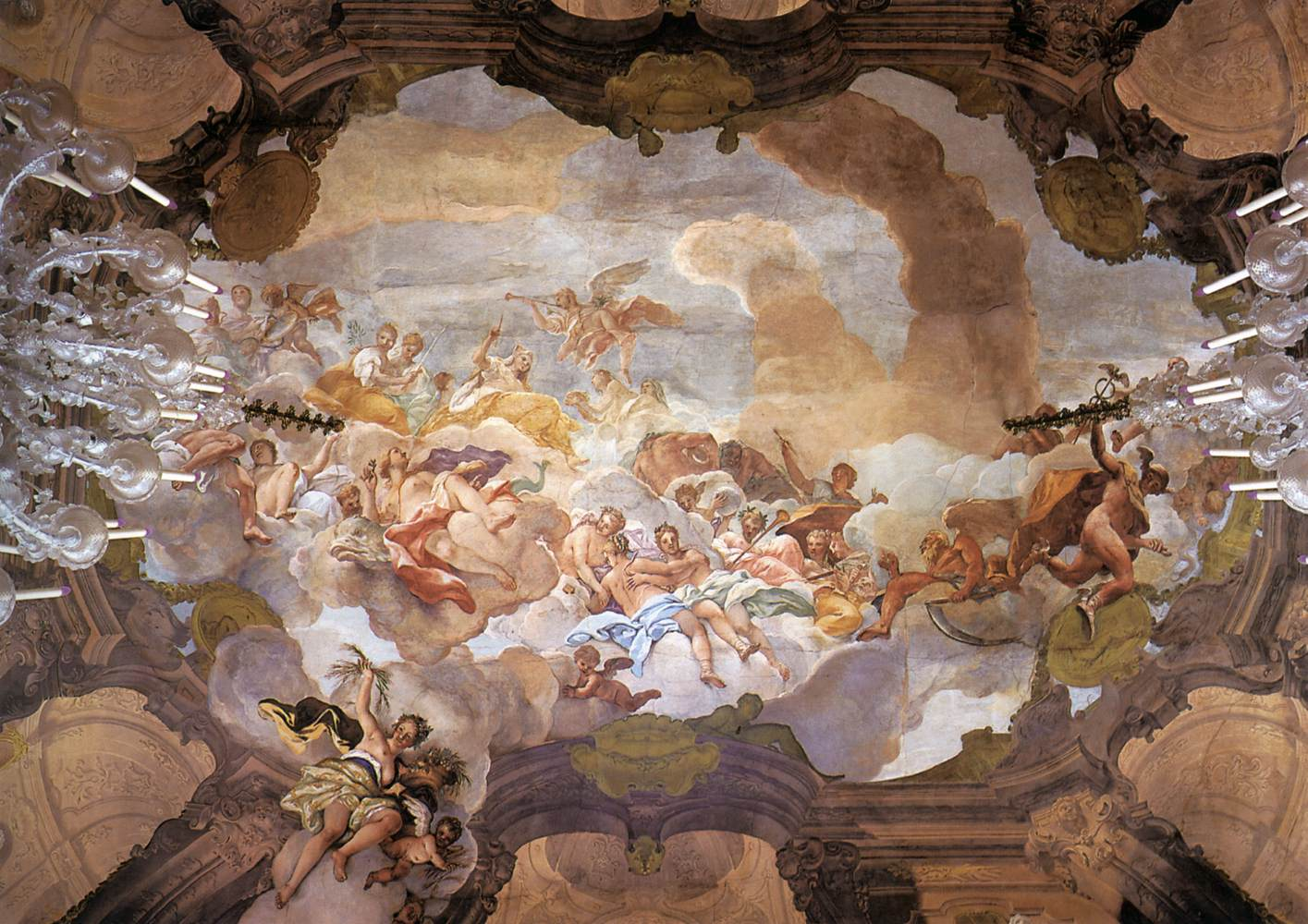 The frescoe in the main room of the Ca' Dolfin (now property of the Ca' Foscari University) depicts the glorification of Venice and the Delfino family.